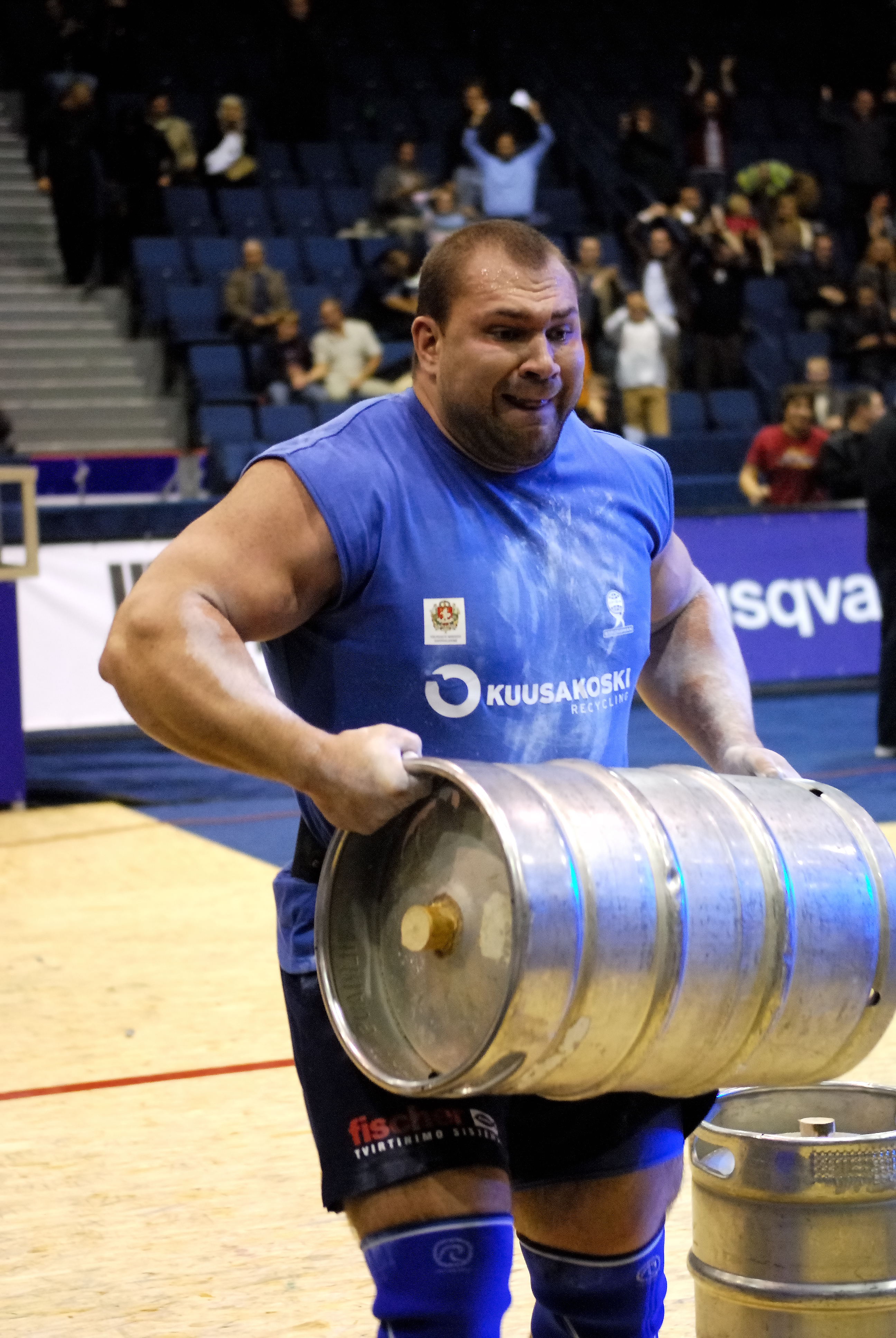 Igor Pedan, a Russian strongman, at World Strong Men Team Competition 2007 - Vilnius, Lithuania.